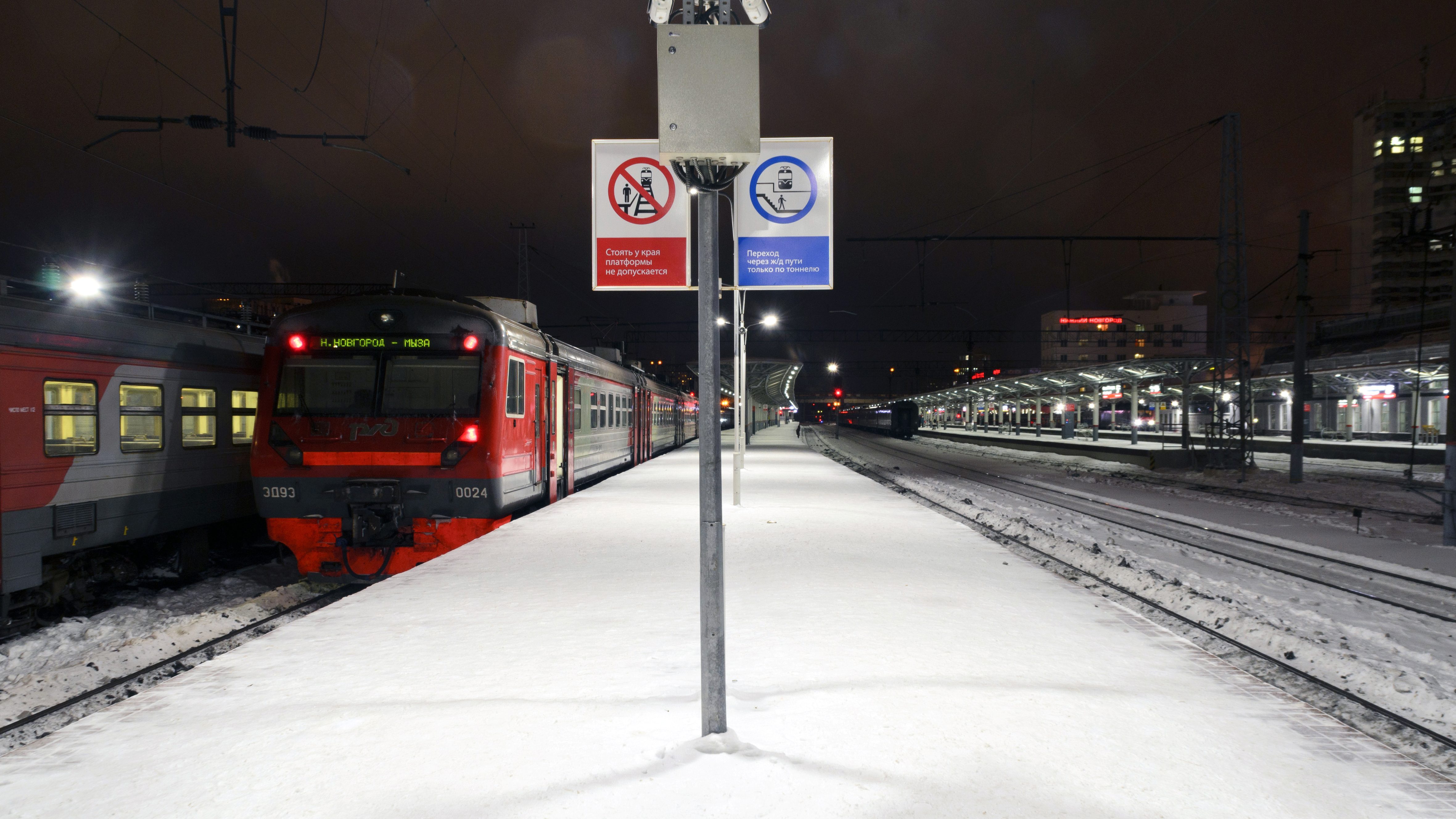 The city train of the Priokskaya line on the platform No. 5 of the Moscow railway station in Nizhny Novgorod